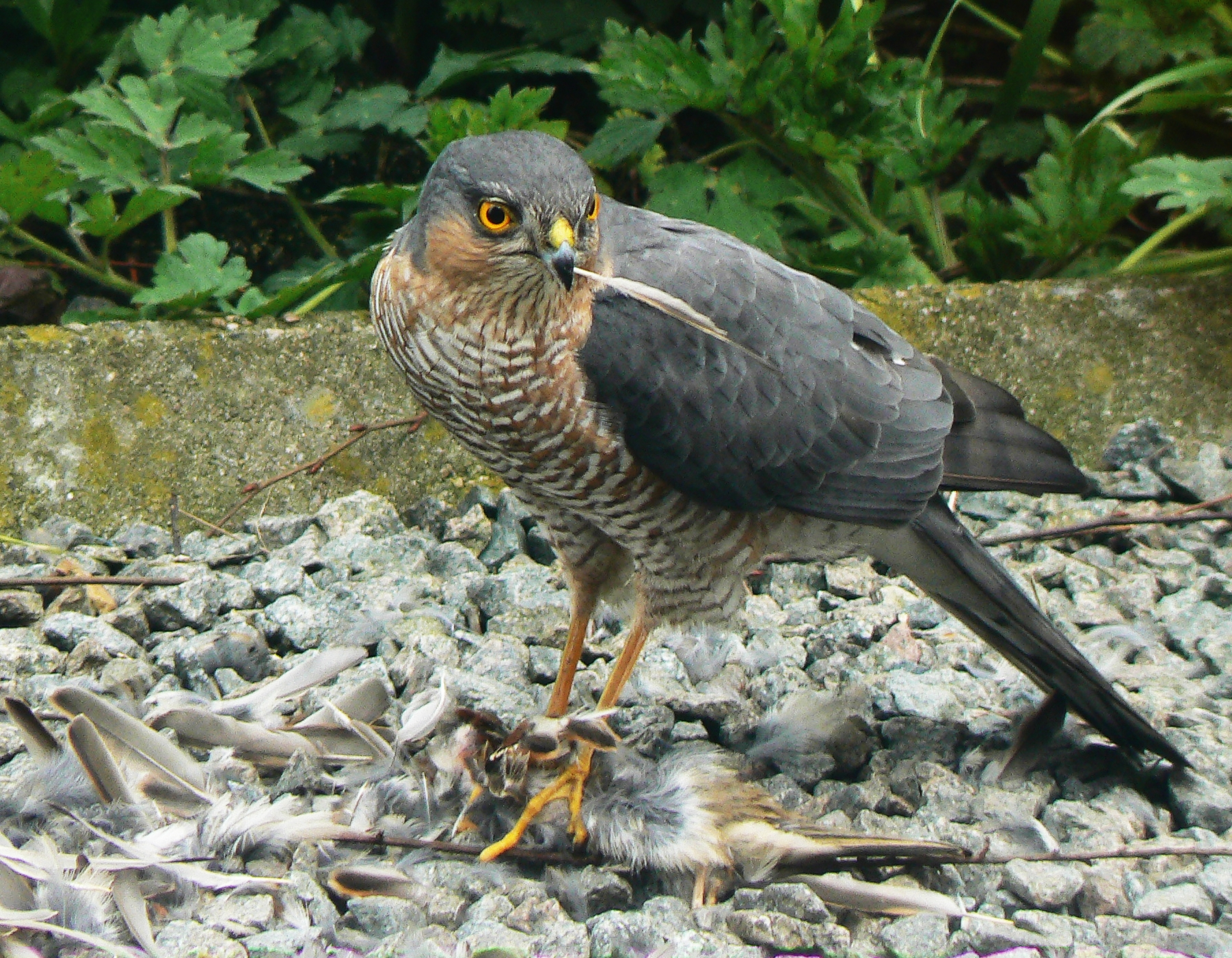 Adult male Eurasian Sparrowhawk, plucking prey. It is standing on a driveway to a house in Sint-Katelijne-Waver, near Antwerpen, Belgium.